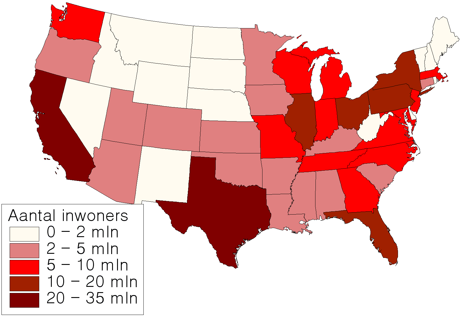 Choropleth map of the number of residents of states of the United States: an example of an incorrect use, since only densities should be represented.